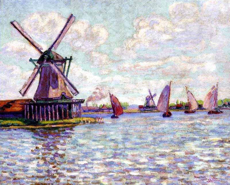 Moulins en Hollande